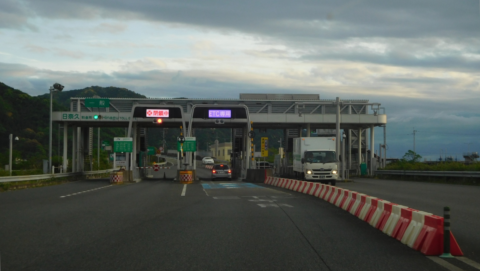 The Hinagu Toll Gate of Minami-Kyushu Expressway at Yatsushiro City, Kumamoto Prefecture, Japan.